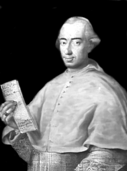 Antonio Doria Pamphili